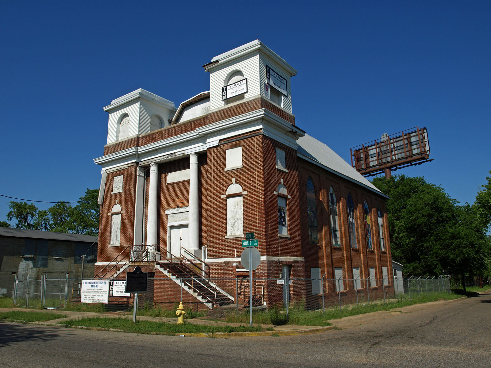 Front (west) side of the Mt. Zion AME Zion Church in Montgomery, Alabama.